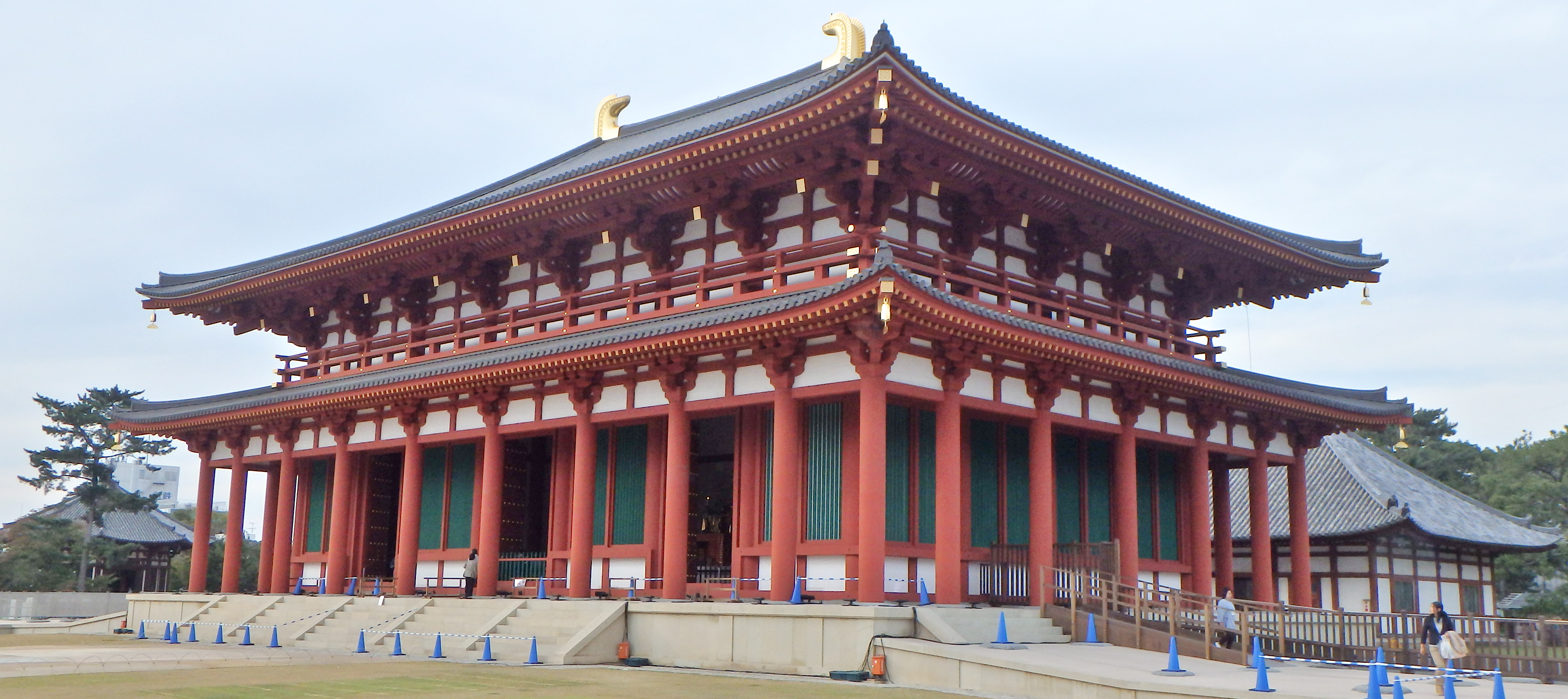 Central Golden Hall in Kōfuku-ji, Nara prefecture,Japan